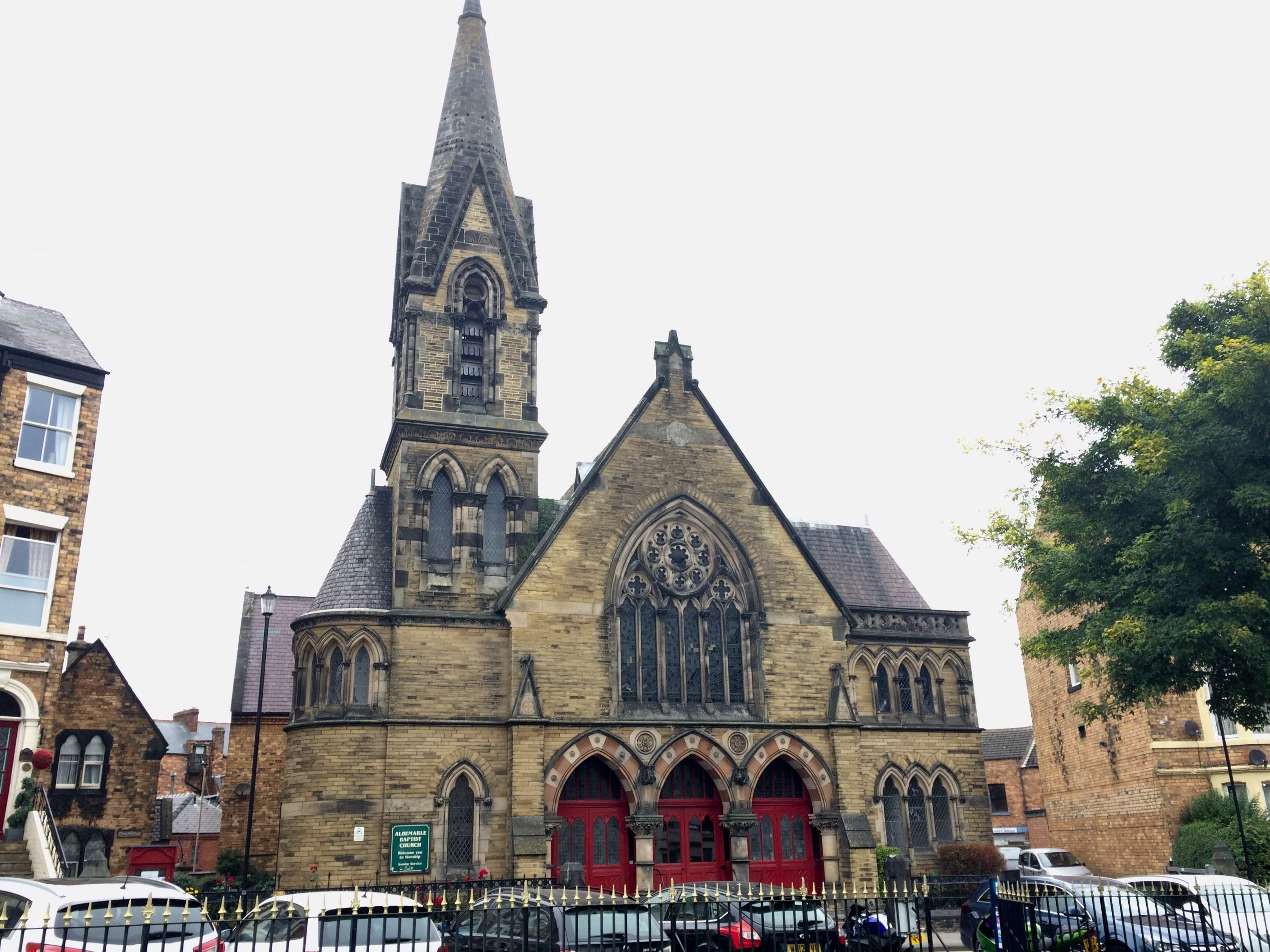 Albemarle Baptist Church, Scarborough Wikidata has entry Q26562588 with data related to this item.